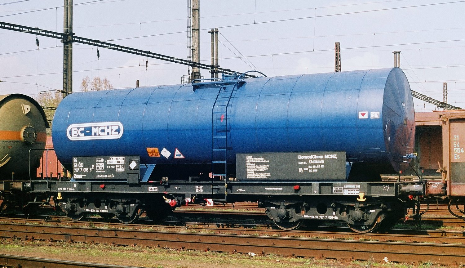 Zaes 84 54 787 7 006-6 (built by Waggonworks in Studenka, Czechoslovakia in 1978), owned by BorsodChem MCHZ in Ostrava (Czech rep.), for the transport of aniline. Spotted in station Kolin, marshalling yard (Czech rep.) (2005).